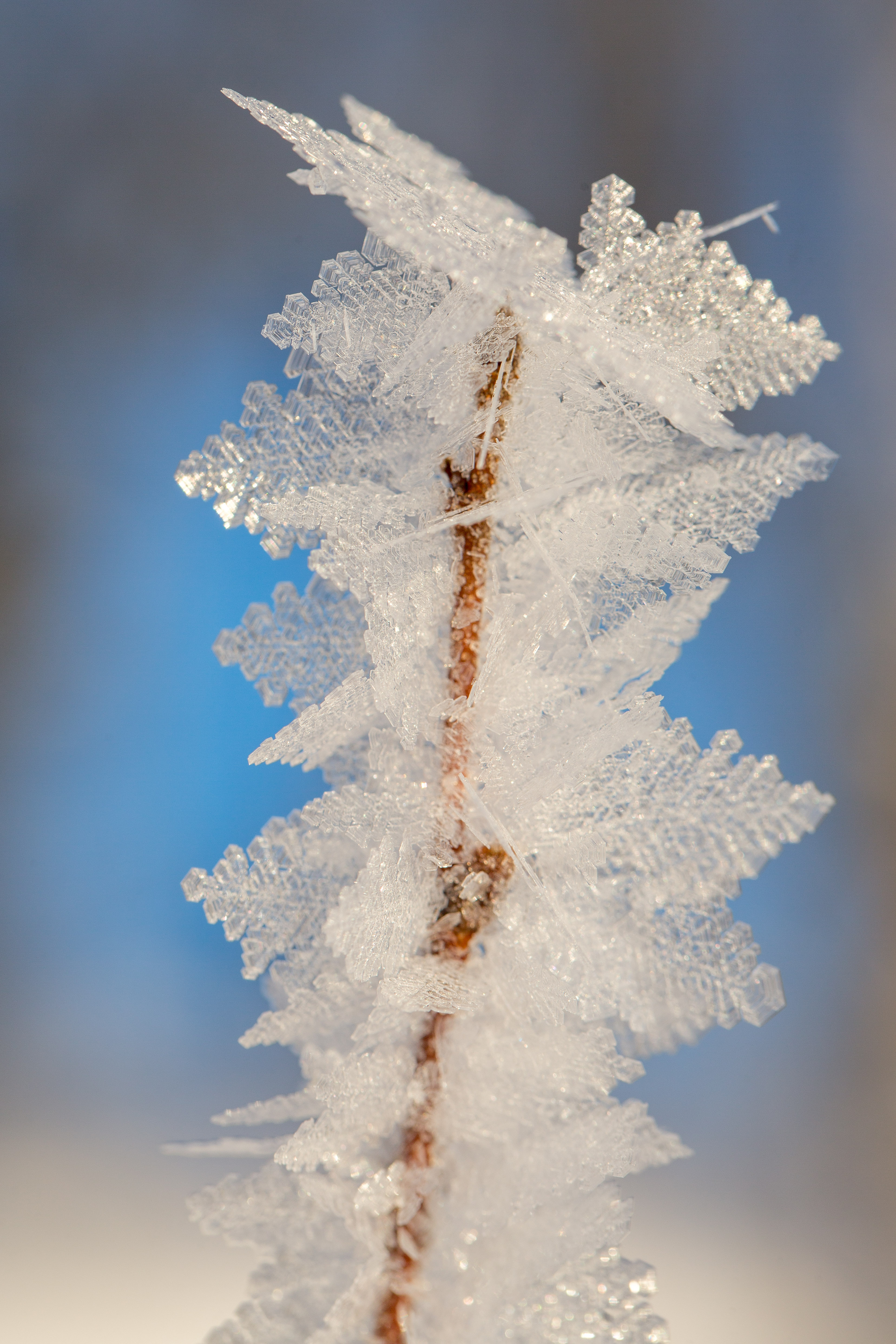 Frost on birch tree in Torpo, Ål, Norway